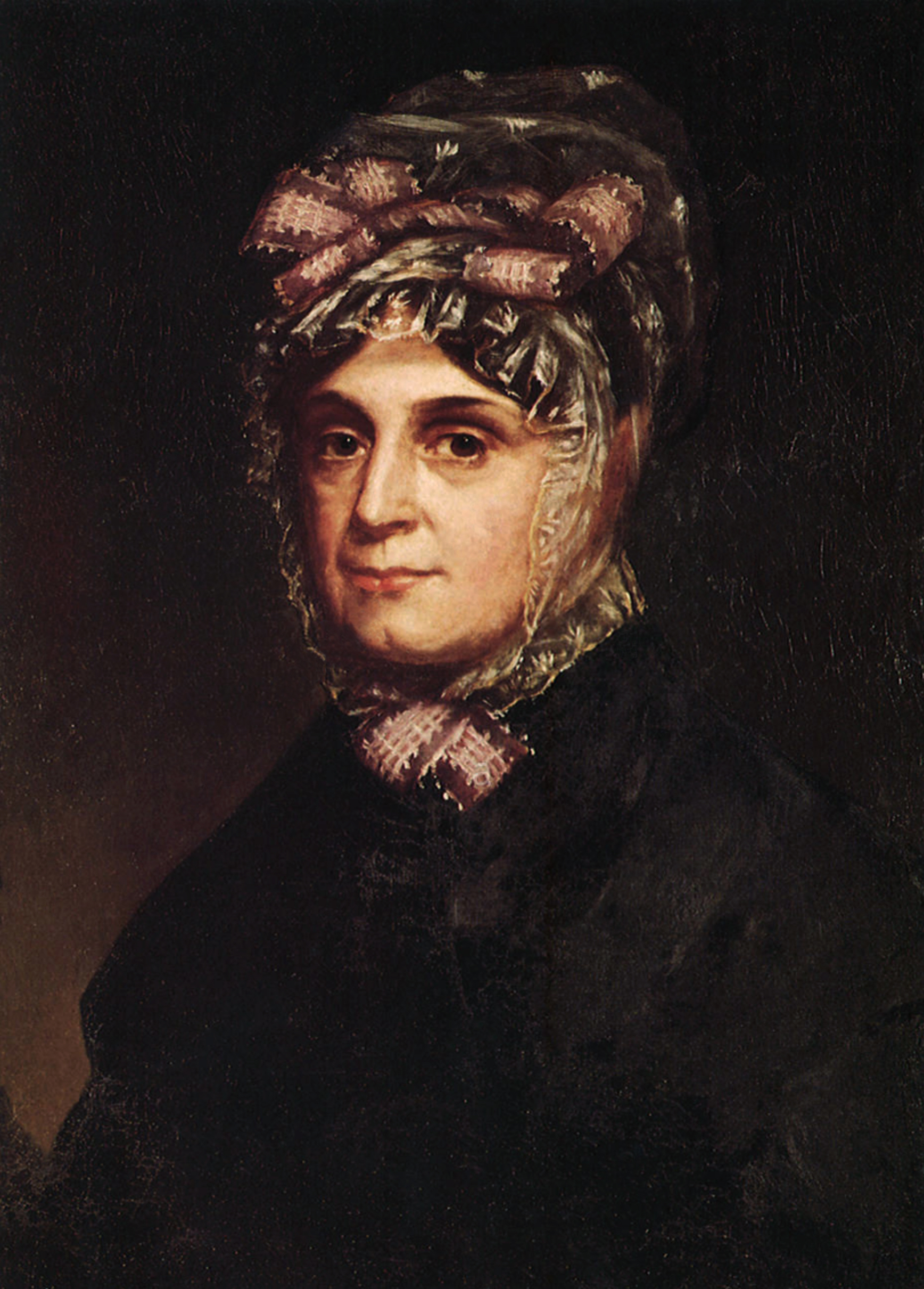 Anna Symmes Harrison